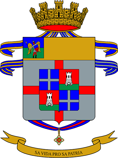 Coat of Arms of the 151° Infantry Regiment; Italian Army.